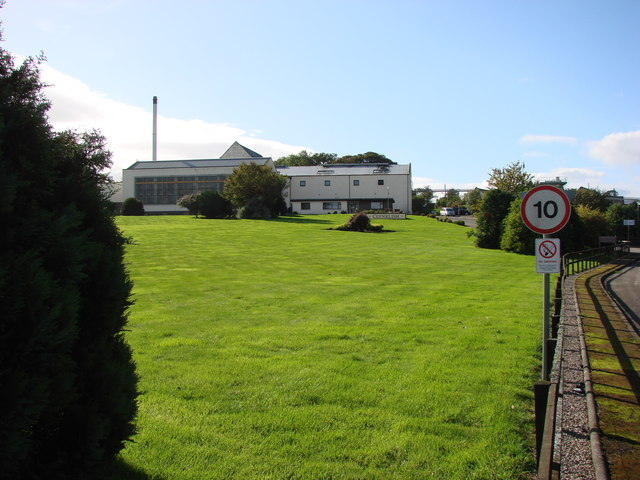 Clynelish Distillery